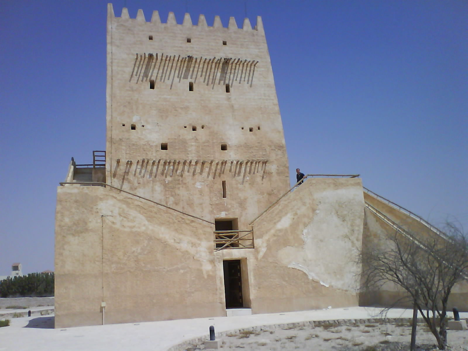 Umm Salal Muhammed Fort